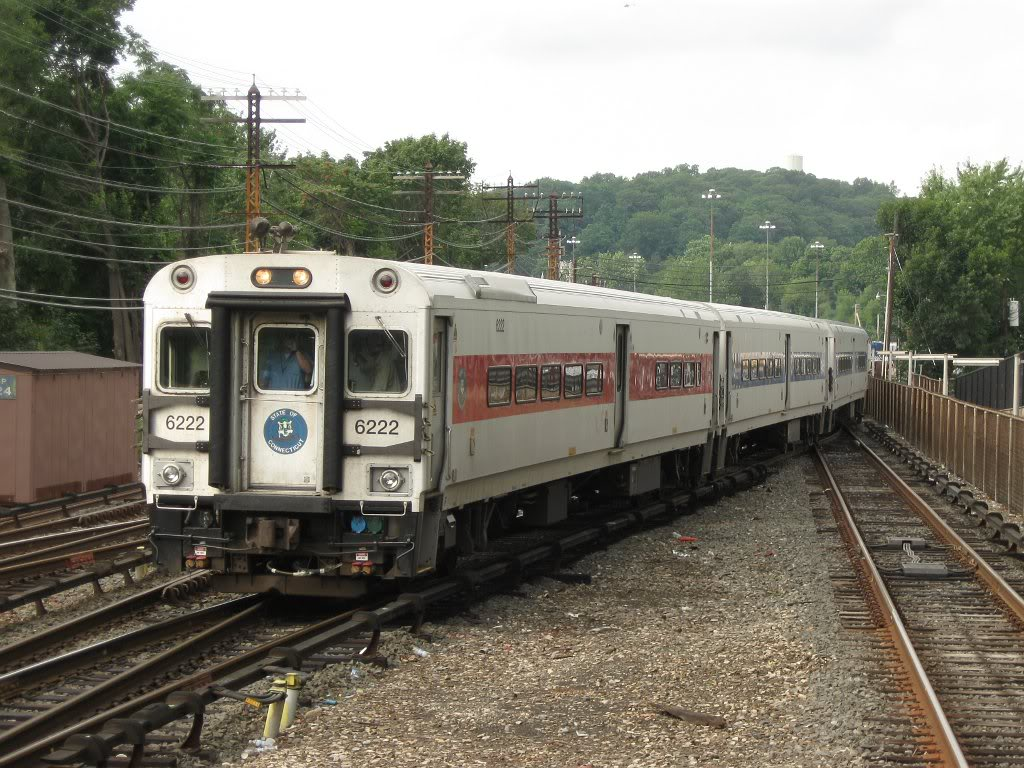 A Metro-North train, headed by Bombardier Shoreliner VI car 6222, deadheads through North White Plains station. This car would be the lead car in the Spuyten Duyvil derailment on December 1, 2013.